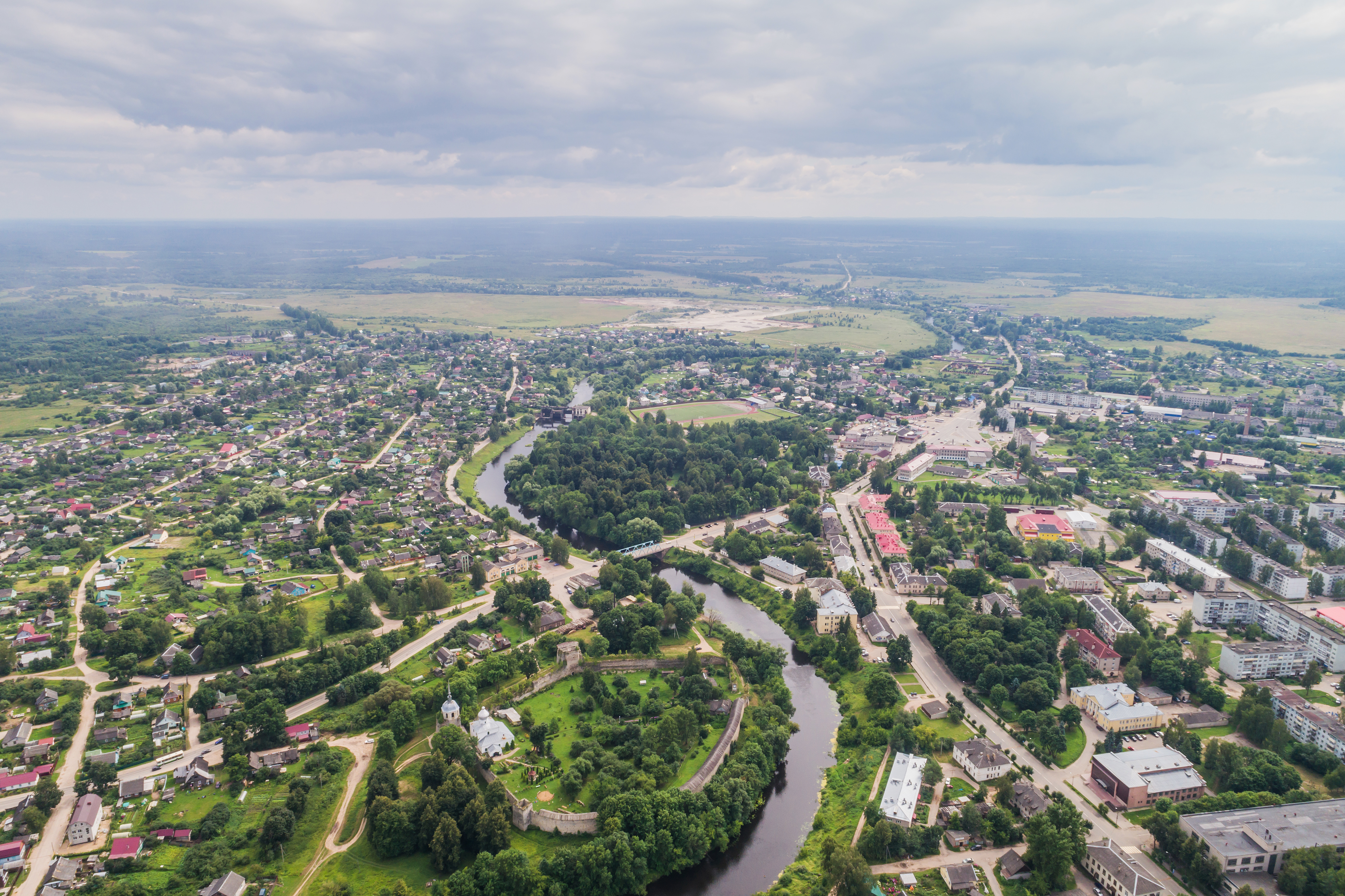 Aerial photo – Fortress in Porkhov, Pskov Oblast, Russia.